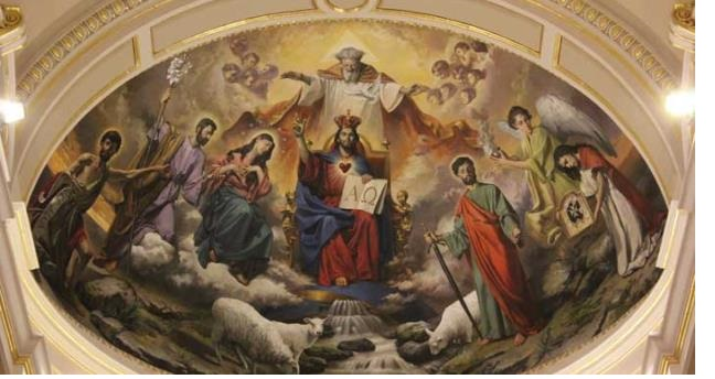 This is a new affresco in Christ the King Church, Paola intended to be used on the Christ the King Church, Paola article in Wikipedia.